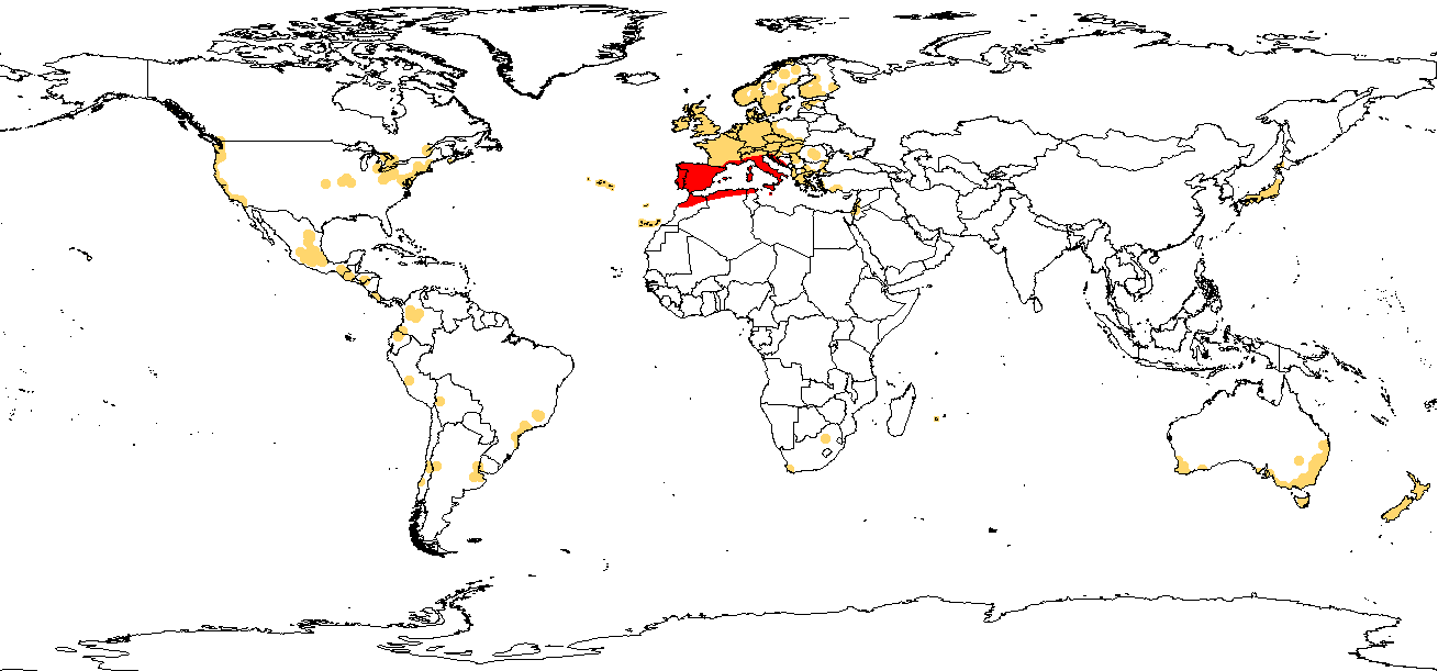 Cymbalaria muralis occurrence records (26 May 2018) GBIF Occurrence Download